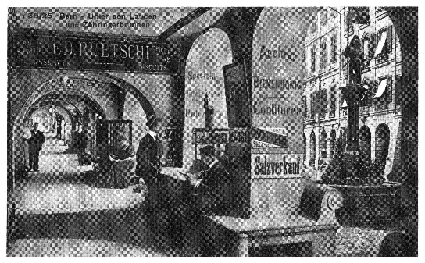 The Lauben and the Zähringerbrunnen on the Kramgasse, Berne, Switzerland. Postcard from around the turn of the 20th century.